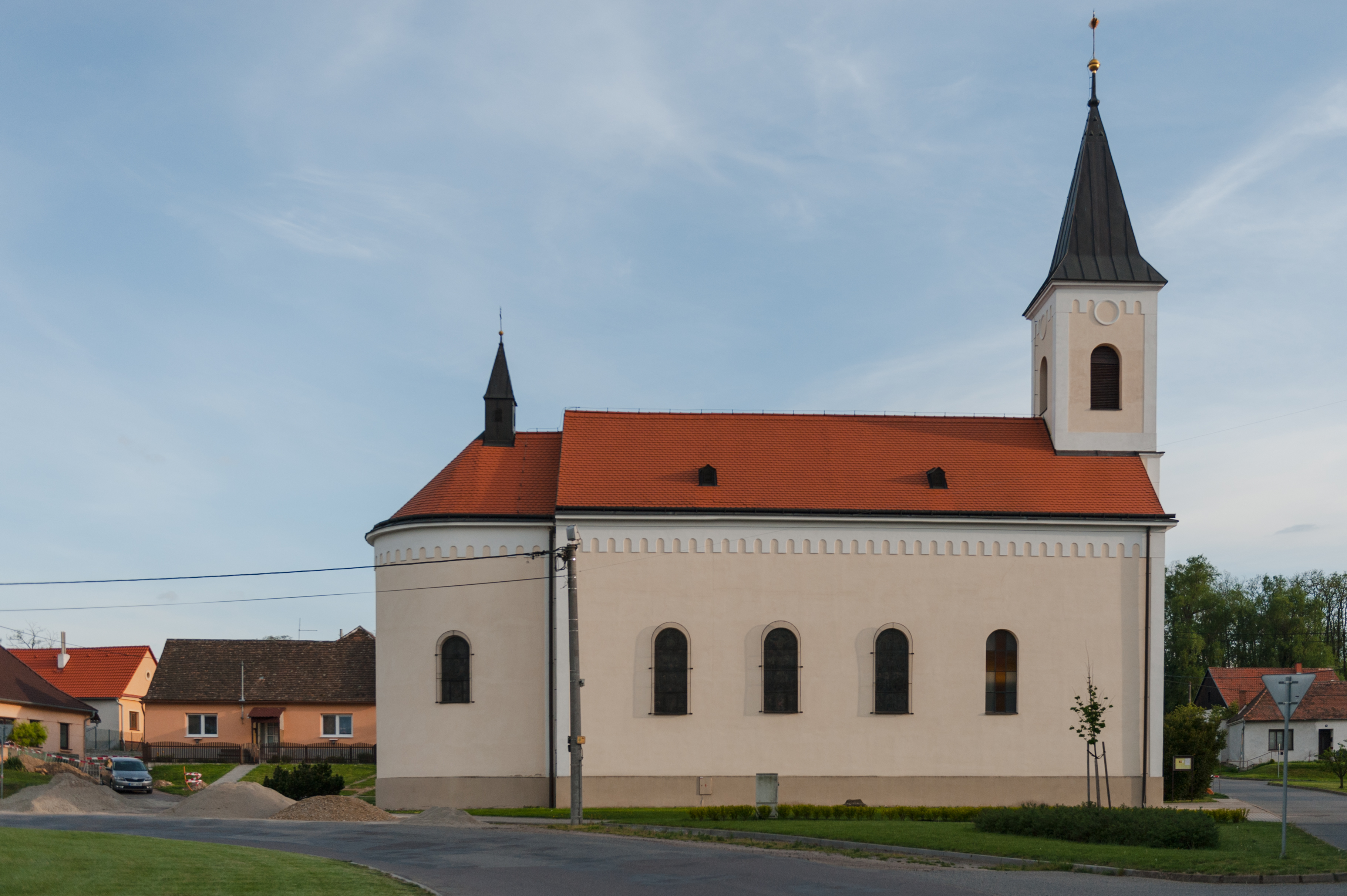 Wikitown Hustopeče: Práče